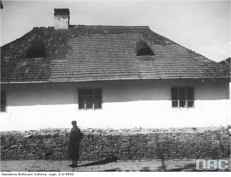 Tkacka Street in the town of Sambor in the Second Polish Republic